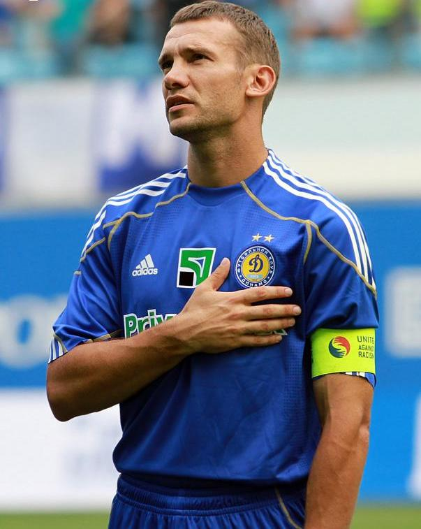 Andriy Shevchenko in FC Dynamo Kyiv